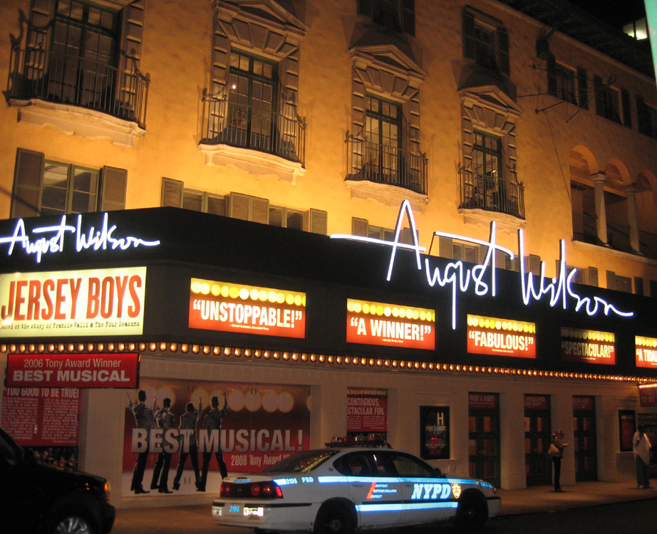 I, Burnley|, took this picture of the August Wilson Theatre on August 30, 2006. I, Burnley, took this picture of the August Wilson Theatre on August 30, 2006.